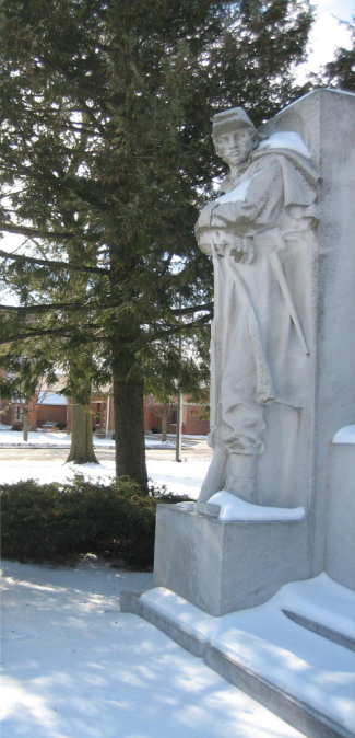 The Soldier's Monument, 1916, Courthouse Square, Oregon, Illinois. National Register of Historic Places as part of the Oregon Commercial Historic District.